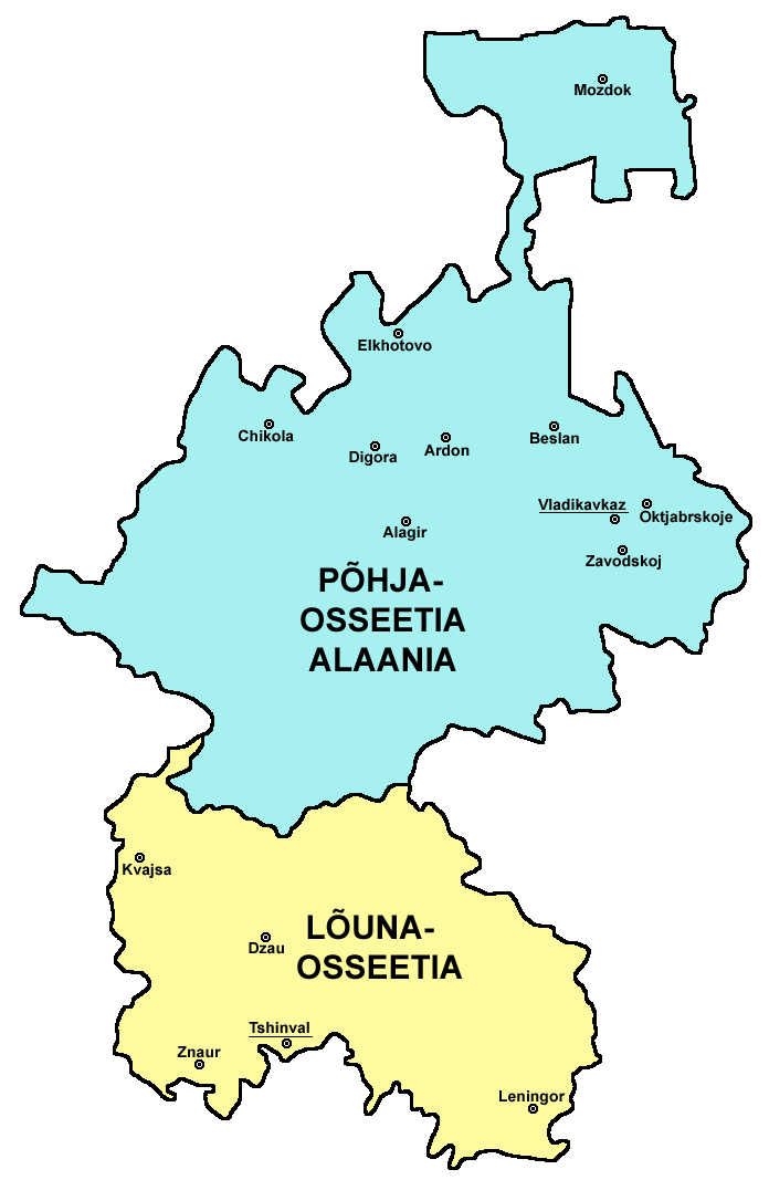 Map of Ossetia